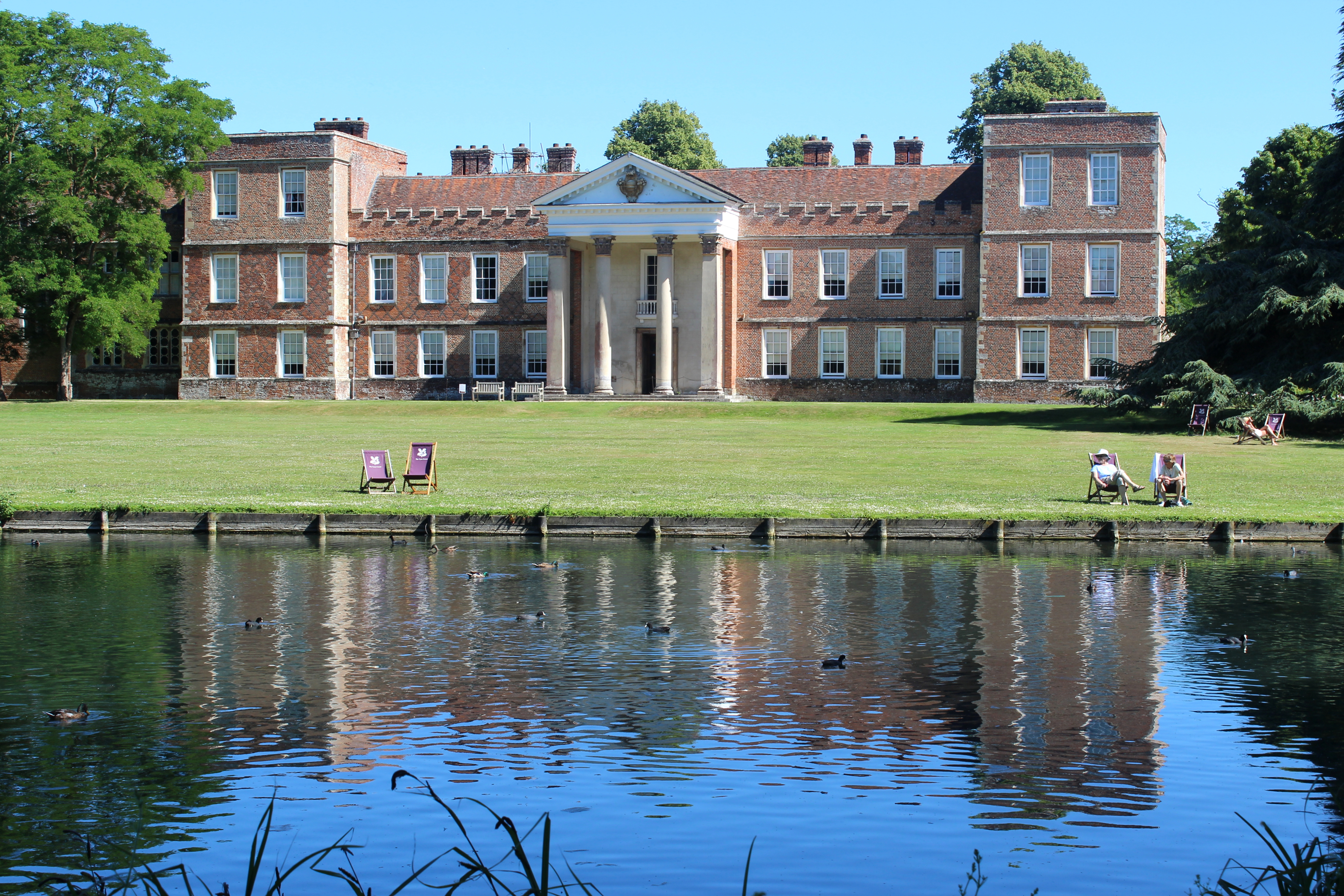 View of The Vyne, a sixteenth century Grade II listed building owned by National Trust, taken from across the lake.